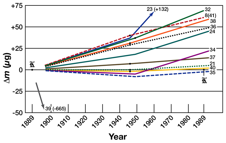 A graph of the relative change in mass of selected kilogram prototypes. From The Third Periodic Verification of National Prototypes of the Kilogram (1988—1992), G. Girard, Metrologia 31 (1994) 317—336. The International Prototype Kilogram (IPK) kept in Sevres, France, and the other national prototype kilogram standards have been found to vary in mass over the years. Since the IPK defines the kilogram, the only way to detect changes in mass is to compare the mass of the prototypes, which is done every 40 years. This graph shows the "mass drift" of the numbered prototypes compared to the IPK. The IPK is represented by the stylized K in an old-English typeface. No. 39, which lost 665 µg relative to the IPK, had originally been allocated to Japan in 1894. In 1958, following the Second World War, it was ceded to the Republic of Korea. No. 23 was allocated to Finland in 1890. No. 8(41) was accidentally stamped with the number 41, but its accessories carry the proper number 8: since there is no prototype marked 8, this prototype is referred to as 8(41).